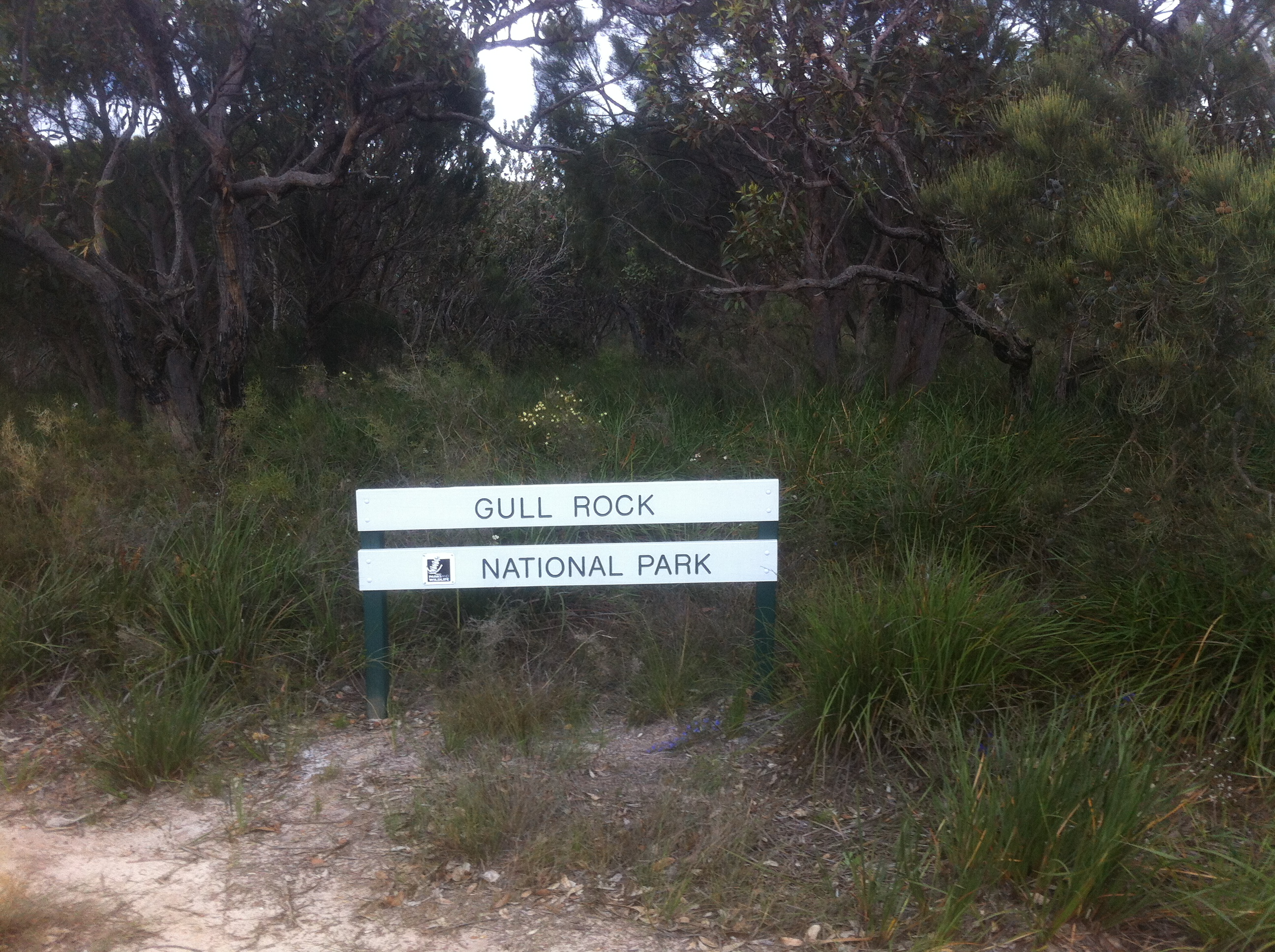 Gull Rock National Park sign